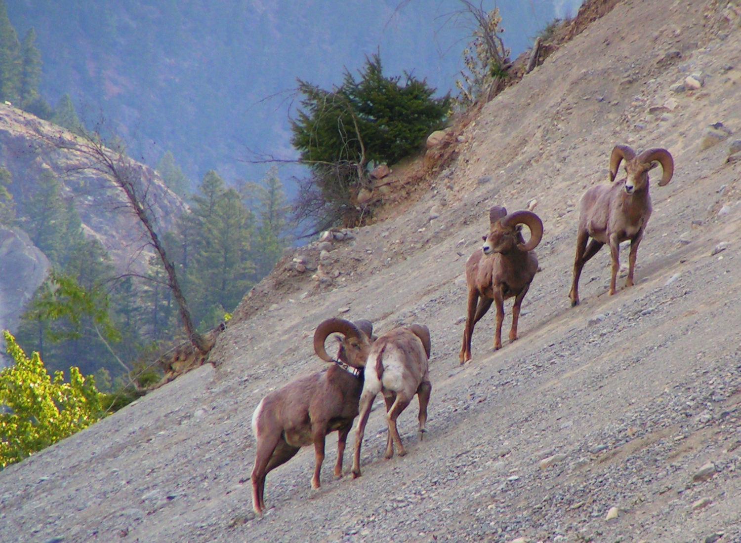 Bighorn Sheep in Kootenay National Park, British Columbia, Canada